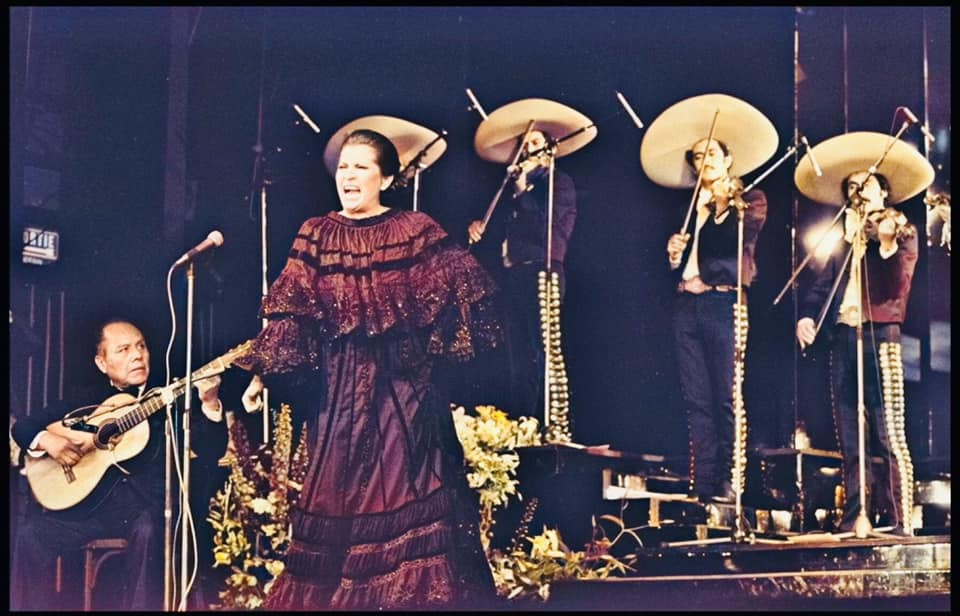 Lola Beltrán en el Teatro L'Olympia de Paris en 1979